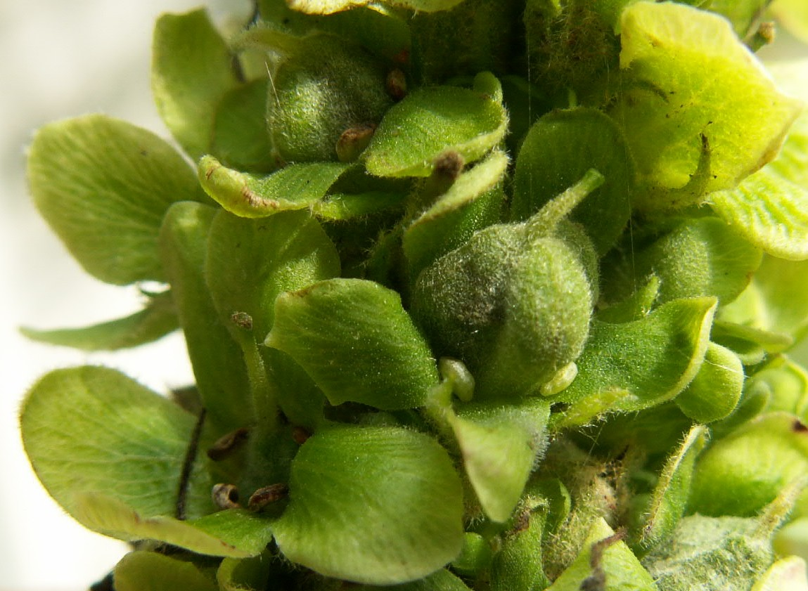 Fruit of Verbascum thapsus, Szczecin Płonia, NW Poland.